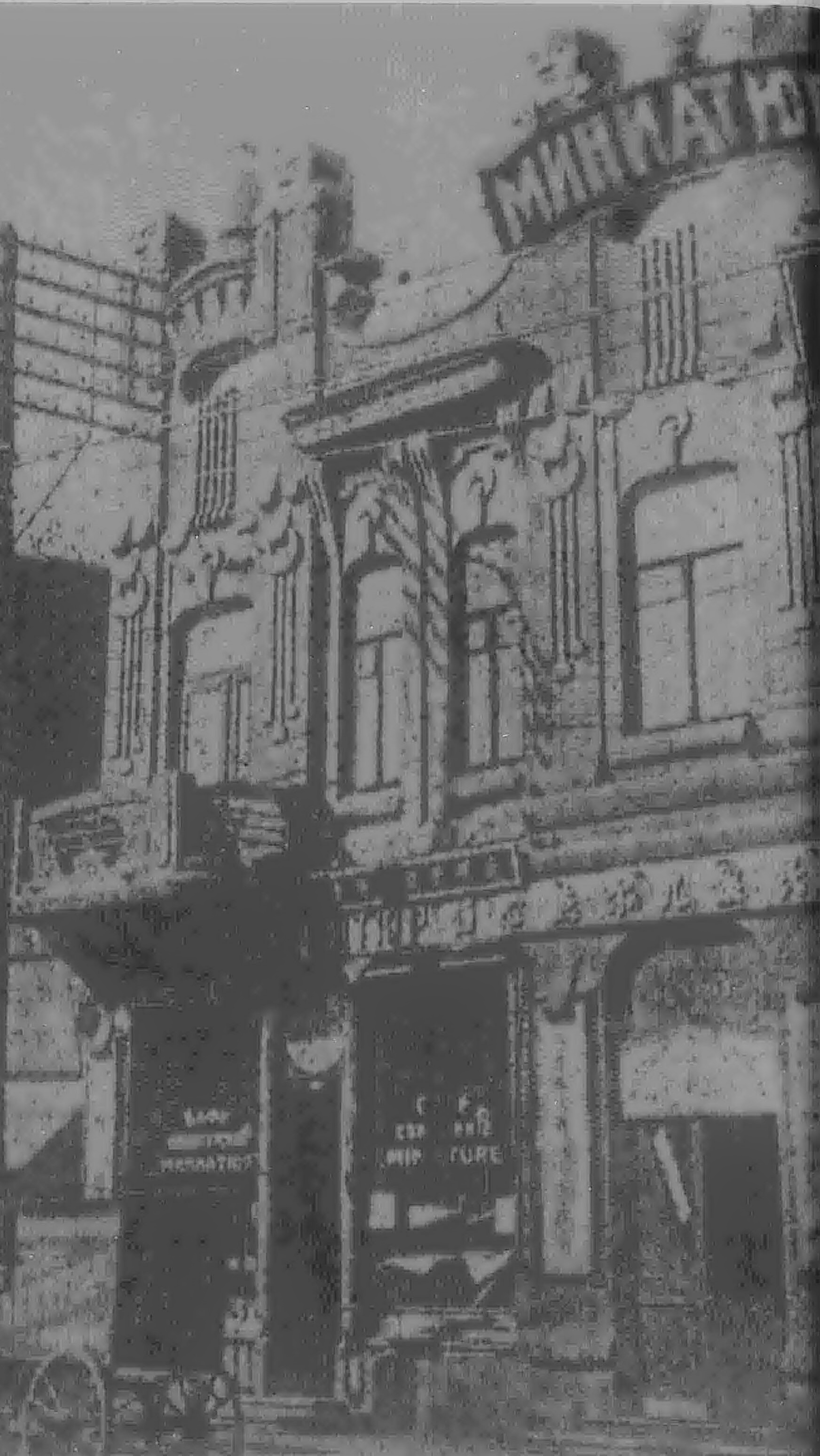 Miniatior Restaurant in Harbin. Built and opened in 1926, it was renamed as Vittoria in 1939. Now a listed historic building and a Historical and Cultural Site Protected at the City Level